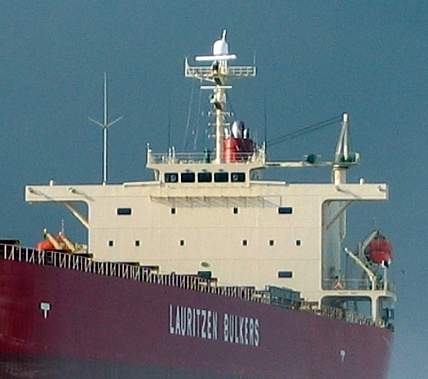 wheel house of Pasha Bulker